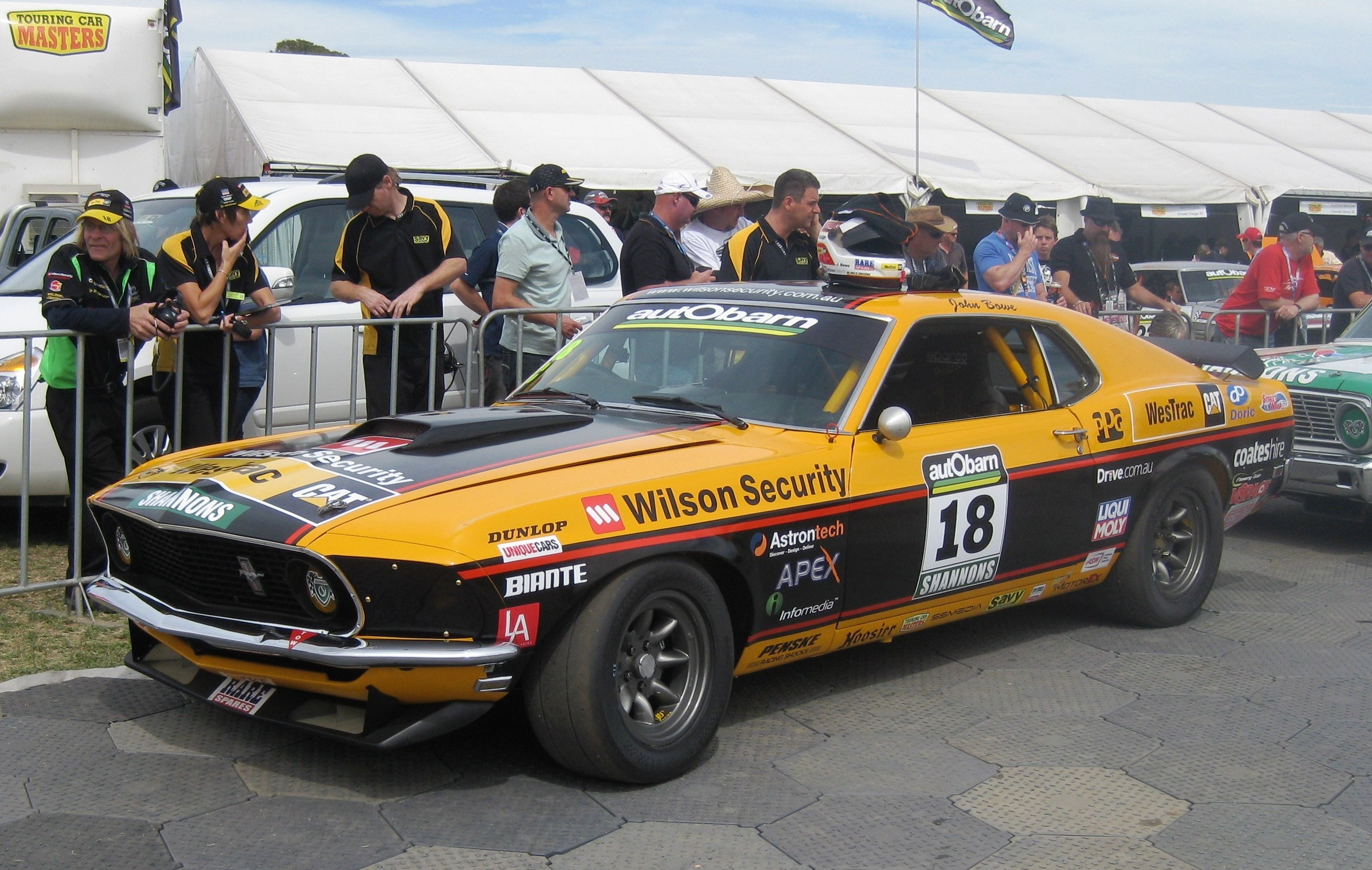 Ford Mustang (first generation) of John Bowe at the Adelaide Parklands Circuit for the opening round of the 2011 Touring Car Masters